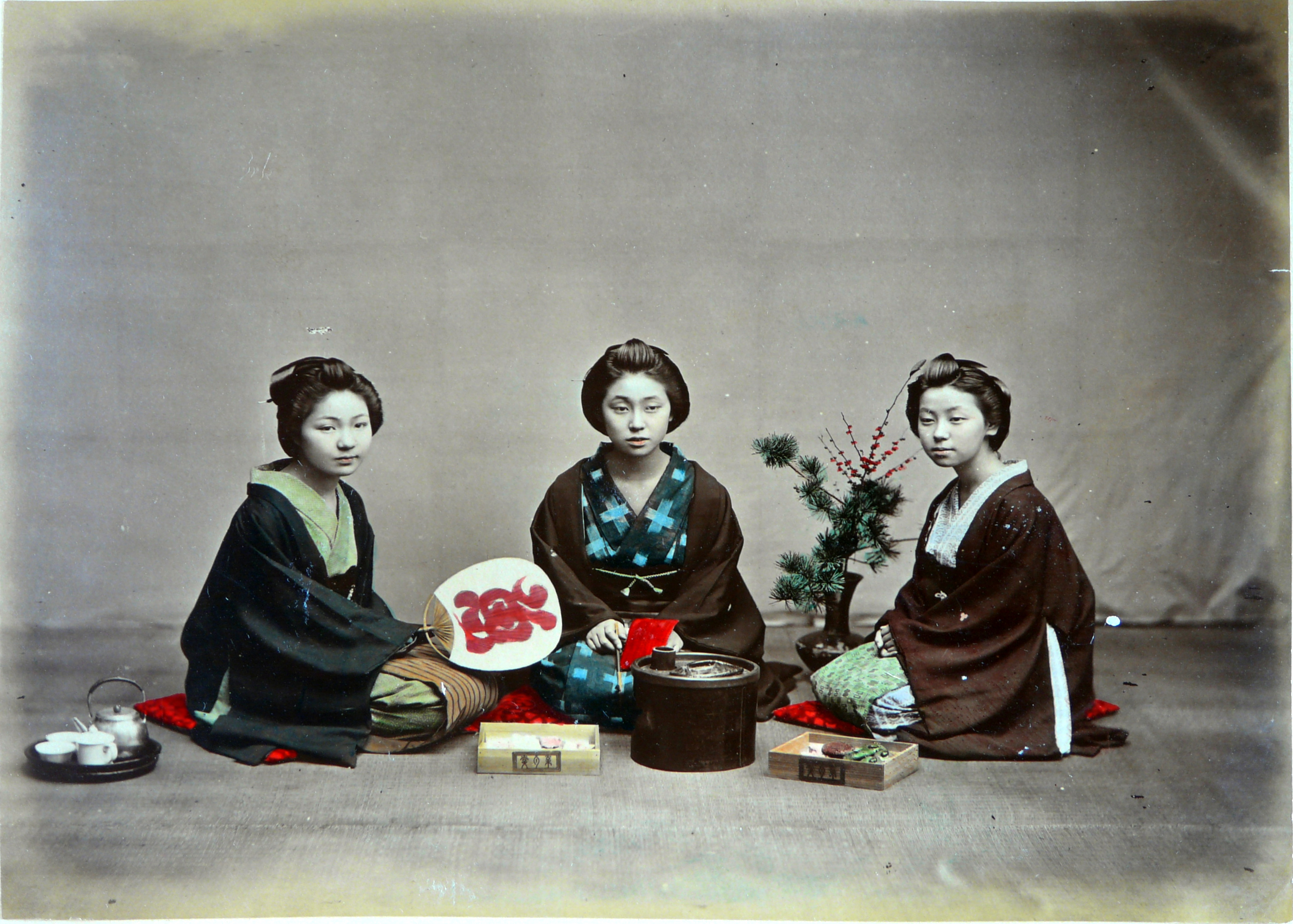 Painted photograph from Japan, dating from before 1886, according to a written note on the album containing the photographs. Presumed Author of the original photographs: Adolfo Farsari.